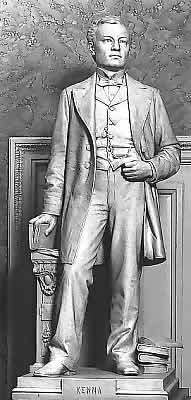 statue of John E. Kenna by Alexander Doyle